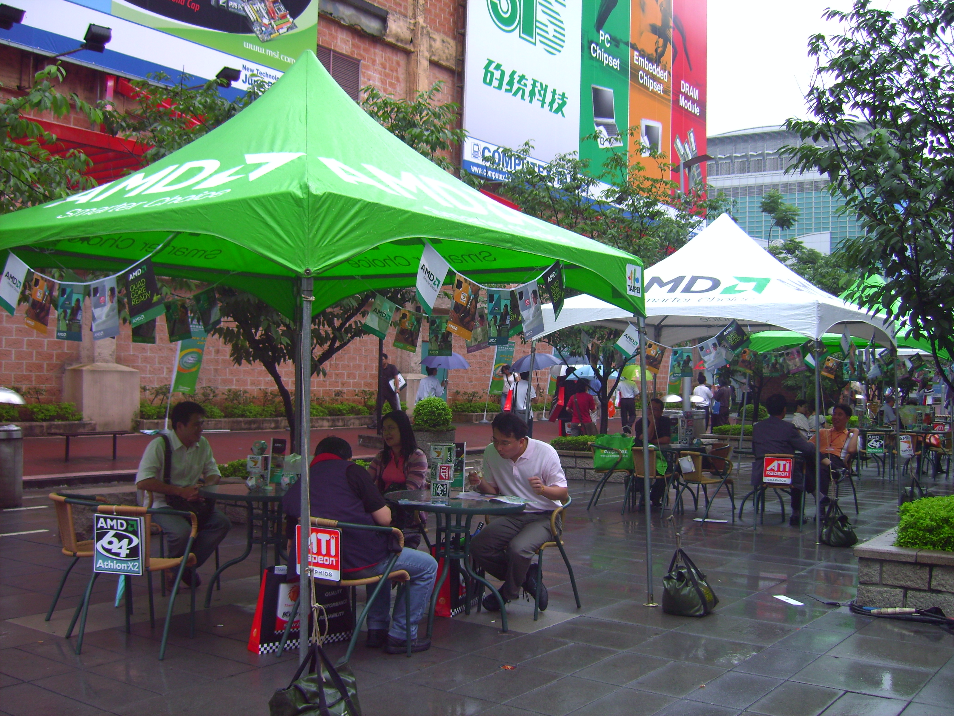 2007 COMPUTEX Taipei: AMD Lounge outside of Taipei Show Center.